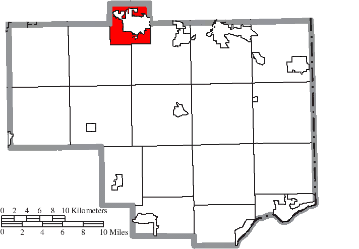 Map of the municipal and township boundaries of Columbiana County, Ohio, United States, as of the 2000 census, with the location of Perry Township highlighted. Township borders are shown only in unincorporated areas in order to differentiate incorporated and unincorporated areas more clearly.